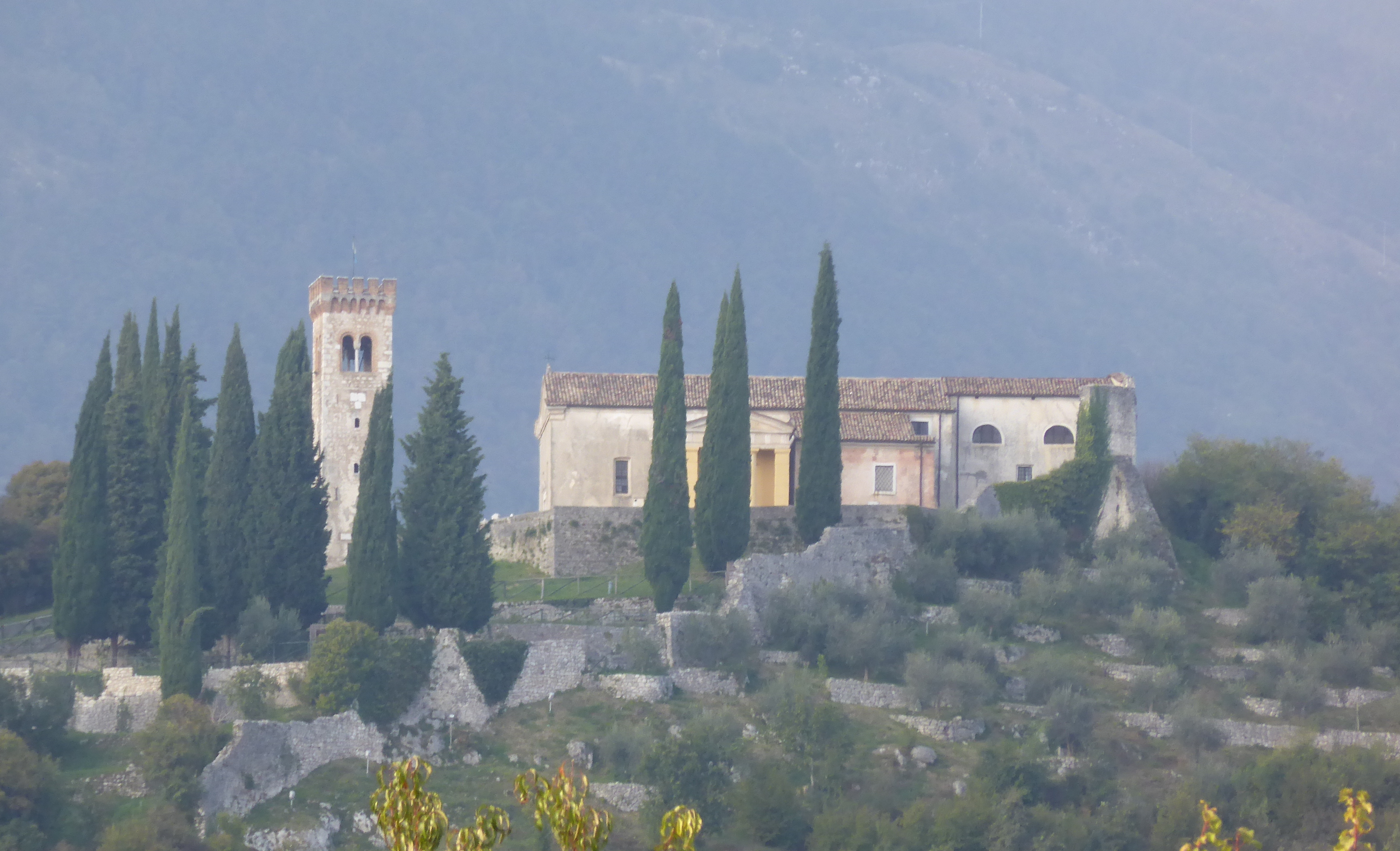 View of the Castle of Caneva